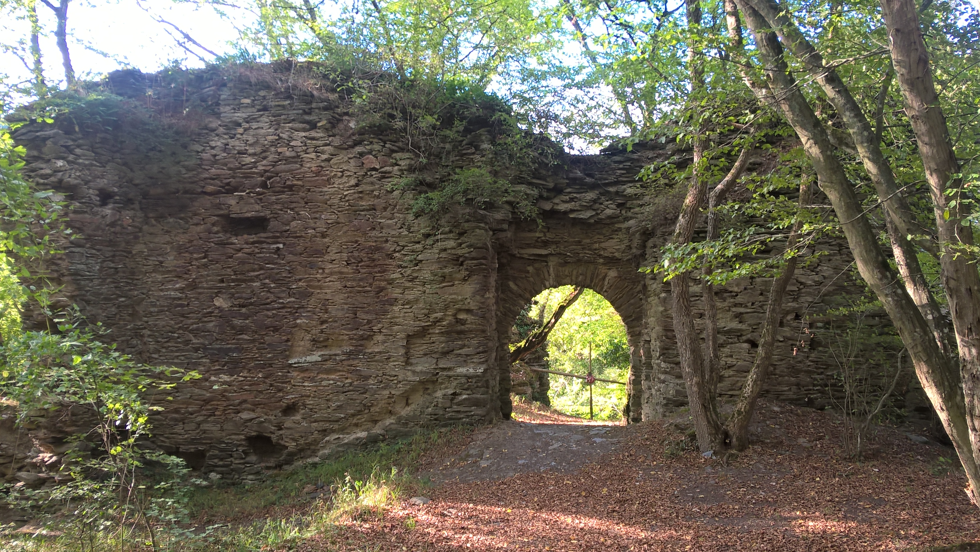 Rheinberg castle near Lorch, Germany. View from the gate of the outer bailey.